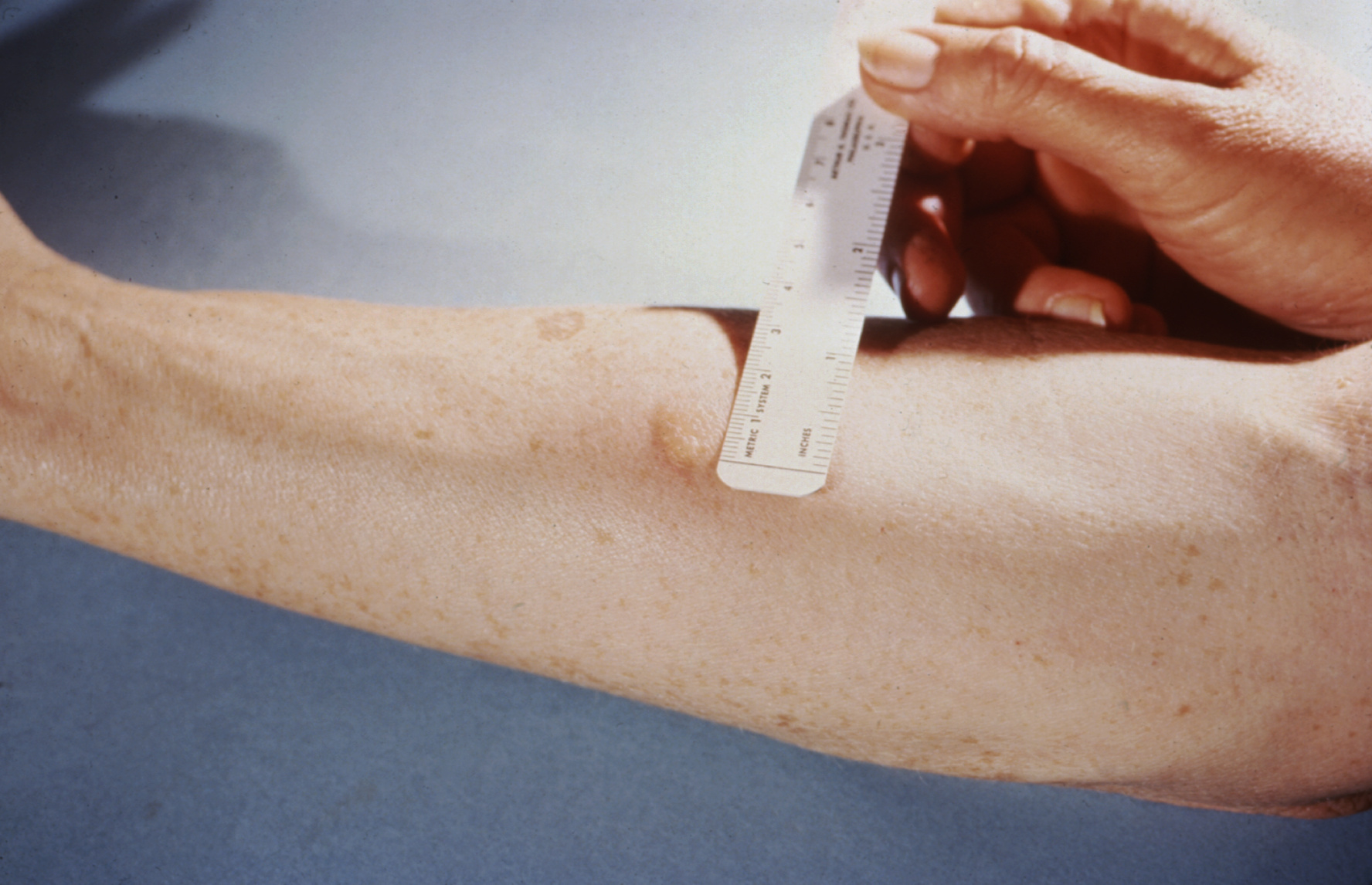 A 48 h Mantoux (tuberculin) test being measured. US Federal Government CDC public domain image.